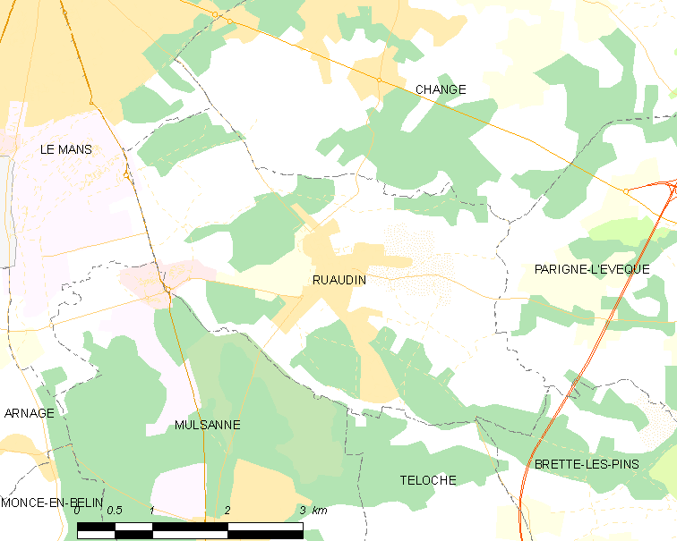 Map of French municipality